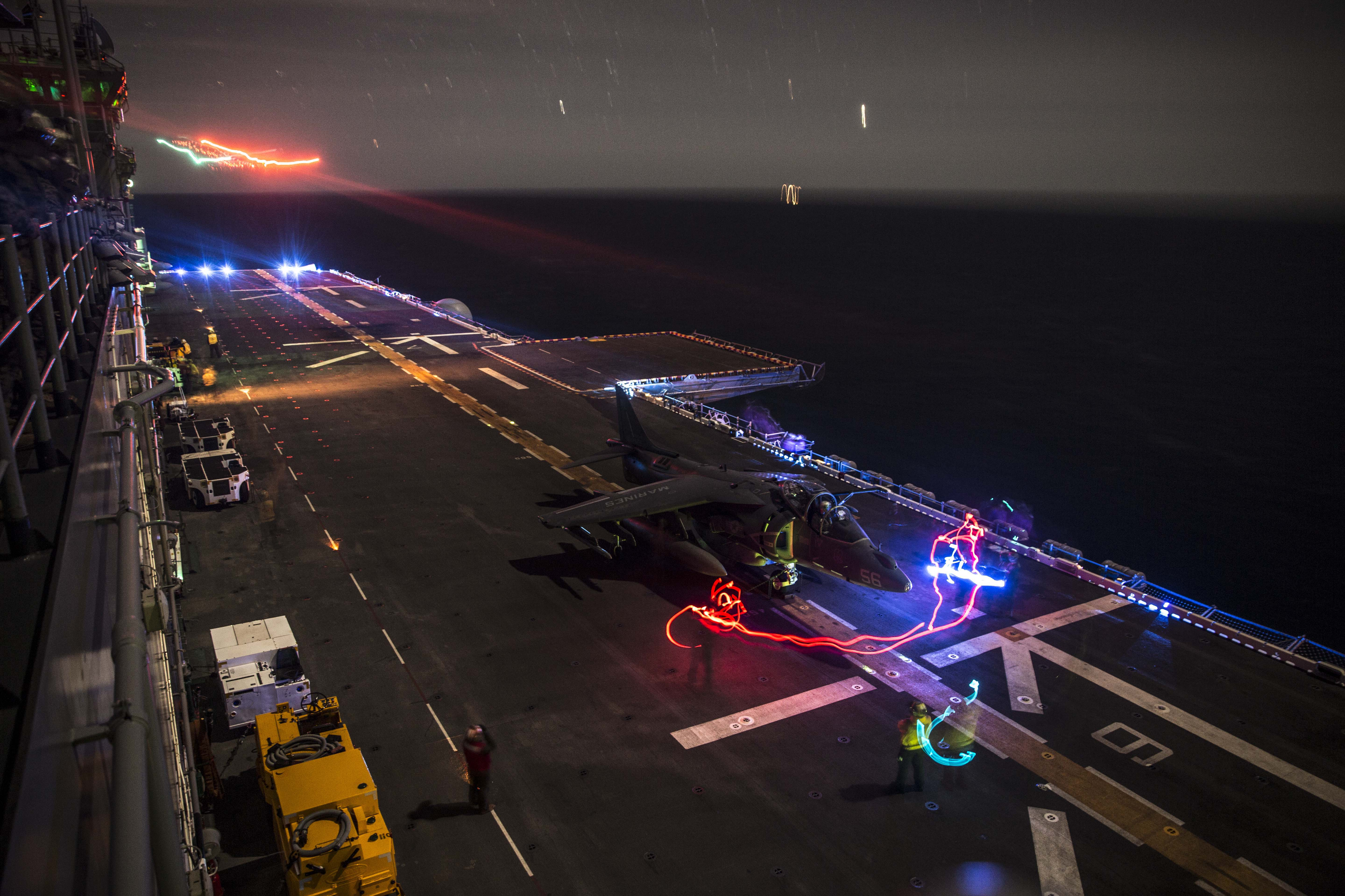 An AV-8B Harrier with Marine Medium Tiltrotor Squadron 161 (Reinforced), 15th Marine Expeditionary Unit, prepares to take-off aboard the USS Essex (LHD 2) during Amphibious Squadron/Marine Expeditionary Unit Integration Training (PMINT) off the coast of San Diego Feb. 24, 2015. The training prepares pilots and flight crew members for similar operations they may encounter while deployed this spring. (U.S. Marine Corps photo by Sgt. Emmanuel Ramos/Released)